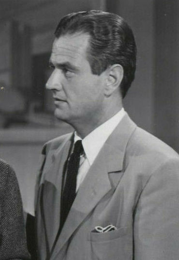 Press photo of Bruce Edwards in the 1949 film "Prejudice"